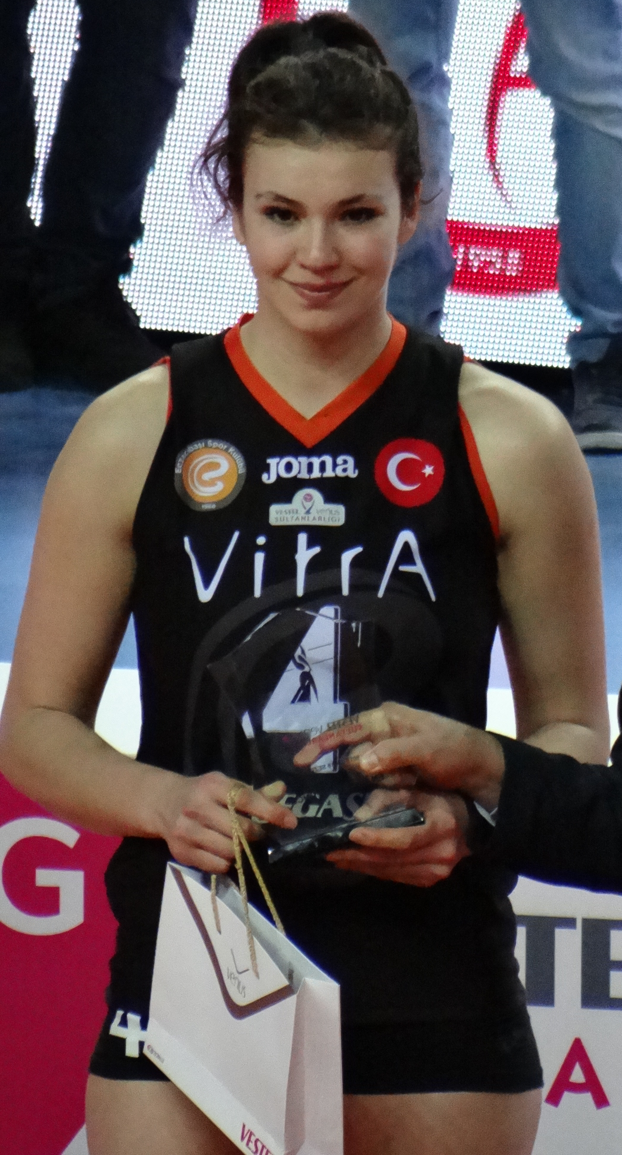 Beyza Arıcı 4 Eczacıbaşı VitrA TWVL 20180426